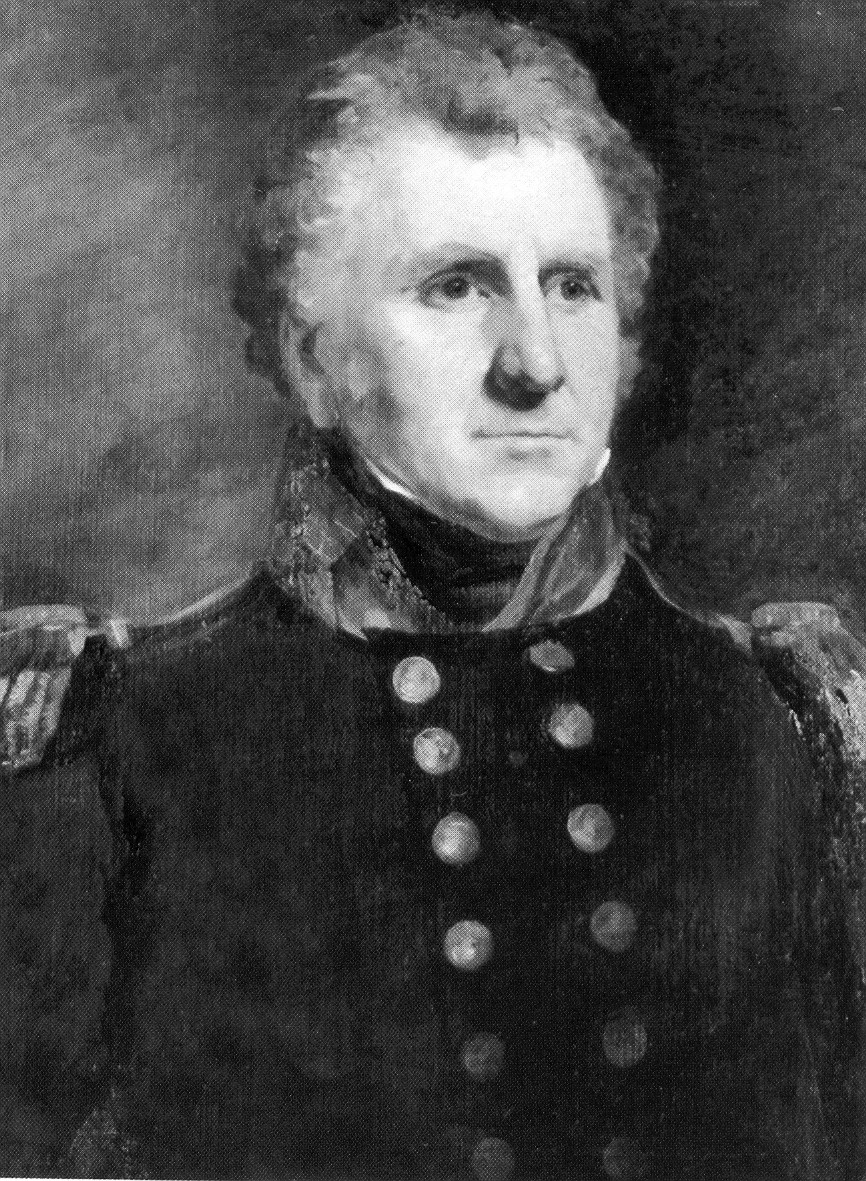 Admiral Sir Charles Adam - early 19th century portrait (Scottish National Portrait Gallery) NOTE (2018): There is no record of this image on the Scottish National Portrait Gallery website, nor does there seem to be any other image illustrating Admiral Charles Adam online. More information about this portrait is needed to ensure it is correctly identified.